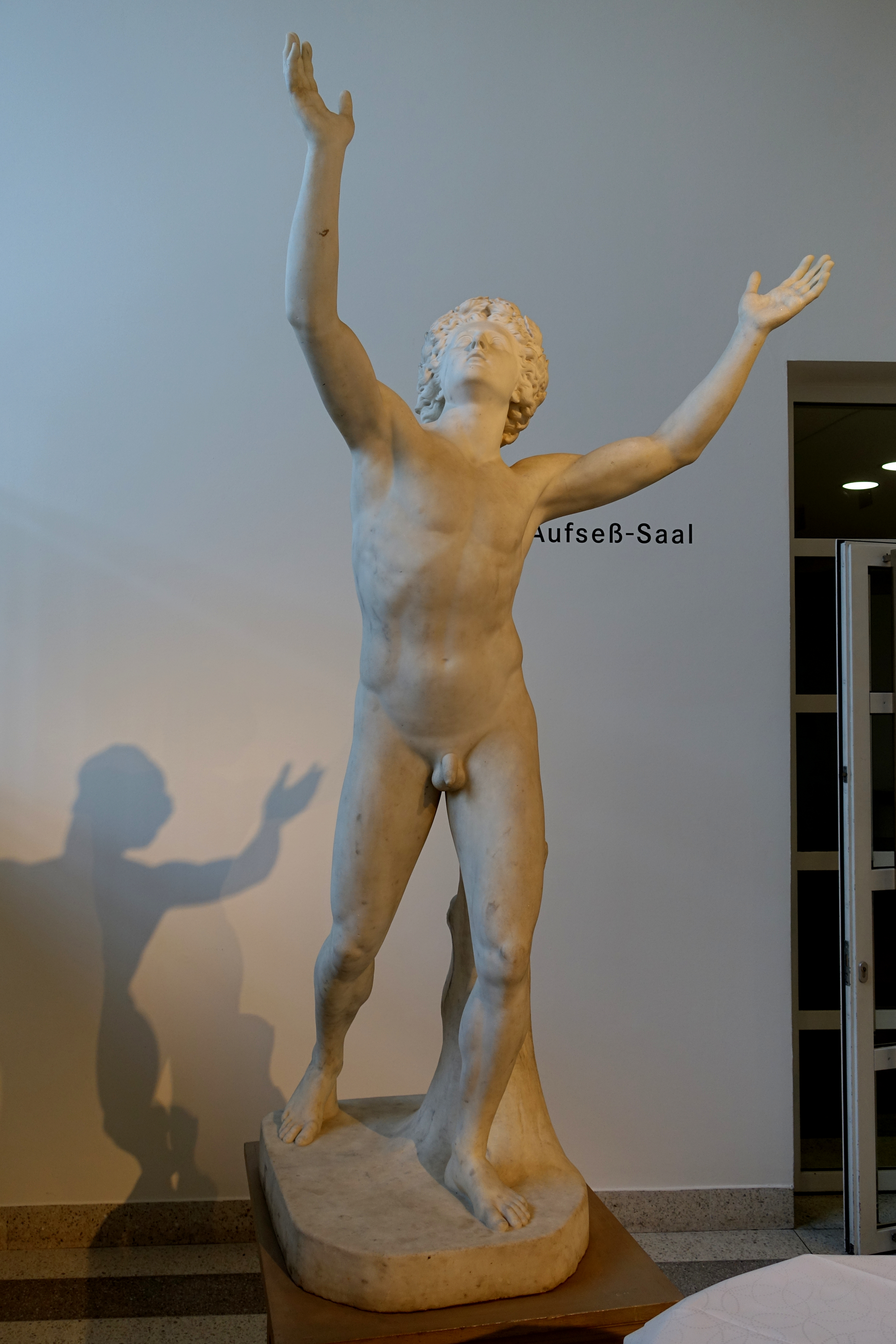 Exhibit in the Germanisches Nationalmuseum - Nuremberg, Germany.